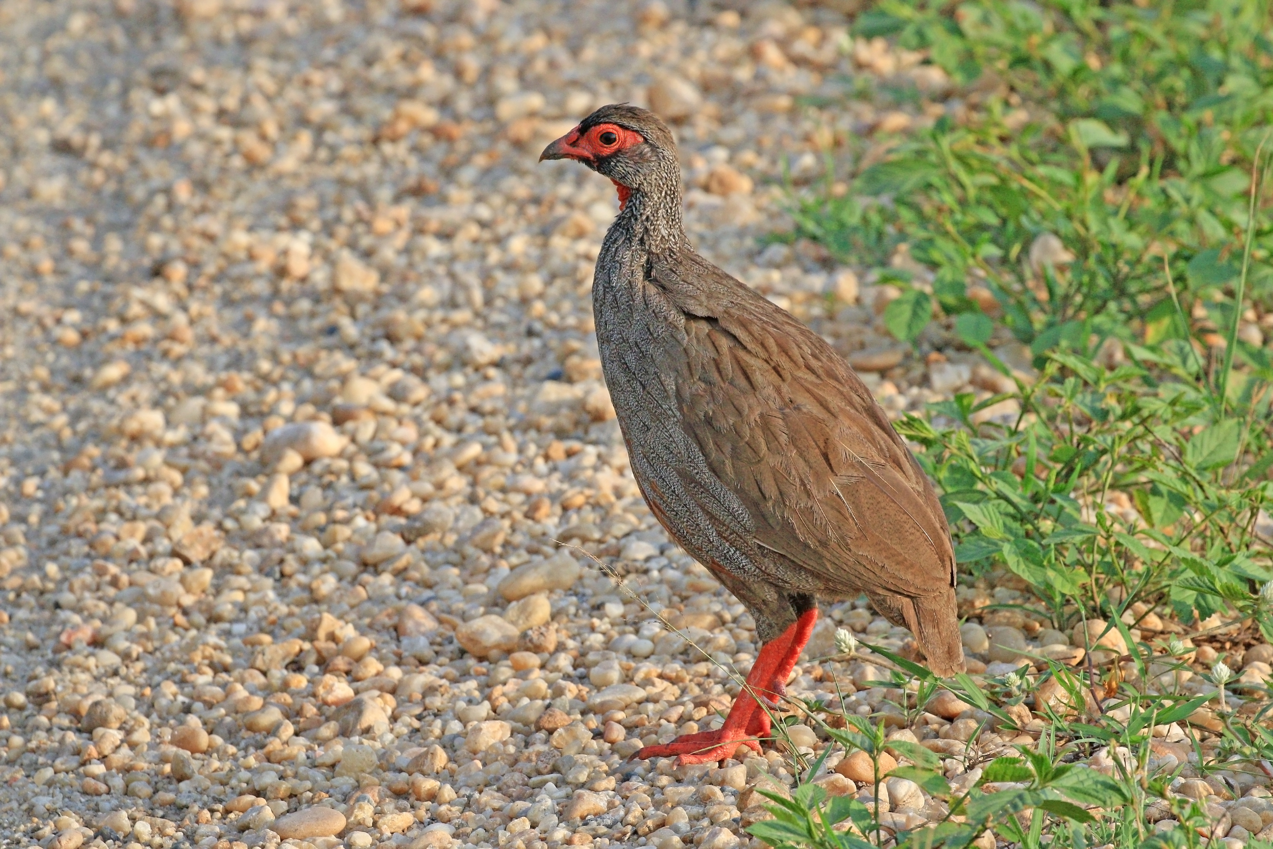 Red-necked spurfowl (Pternistis afer cranchii), Queen Elizabeth National Park, Uganda